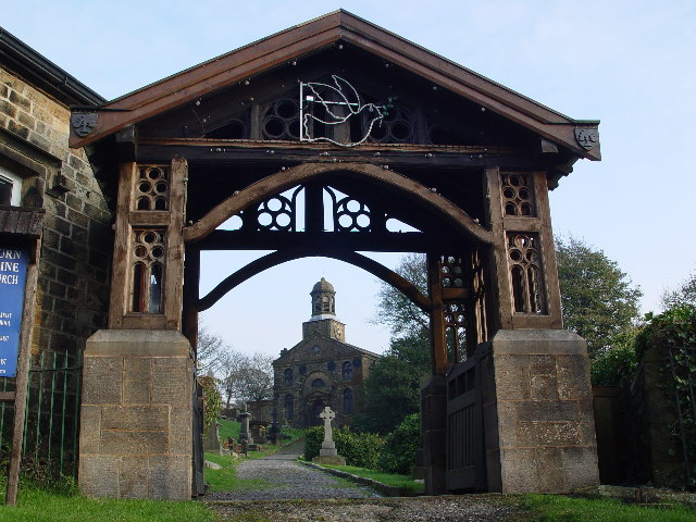 Parish Church of St John the Divine, Cliviger. at Holmes Chapel